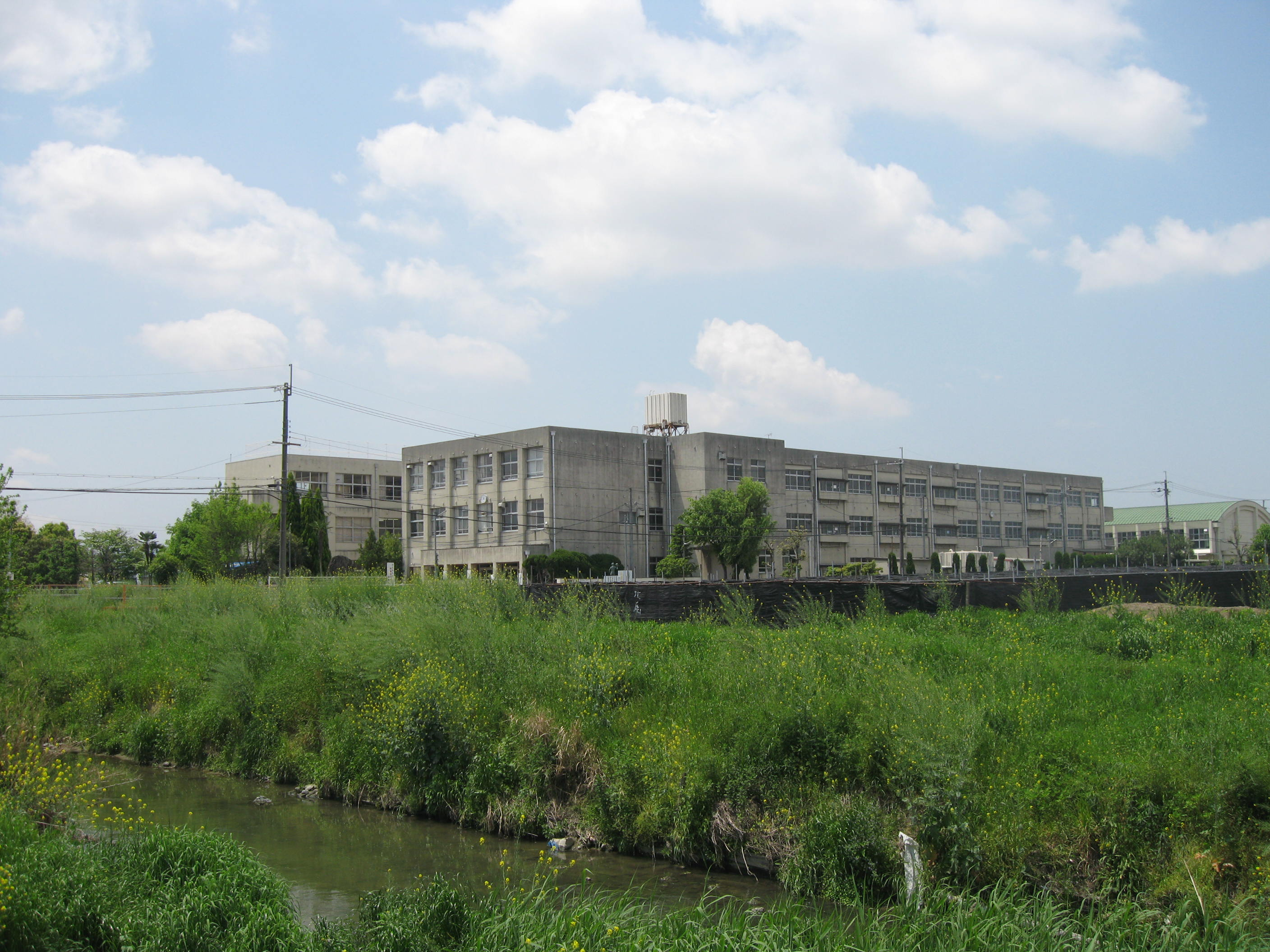 Joyo-shiritsu_Furukawa_es_in_Kyot,Japan_No.2.JPG